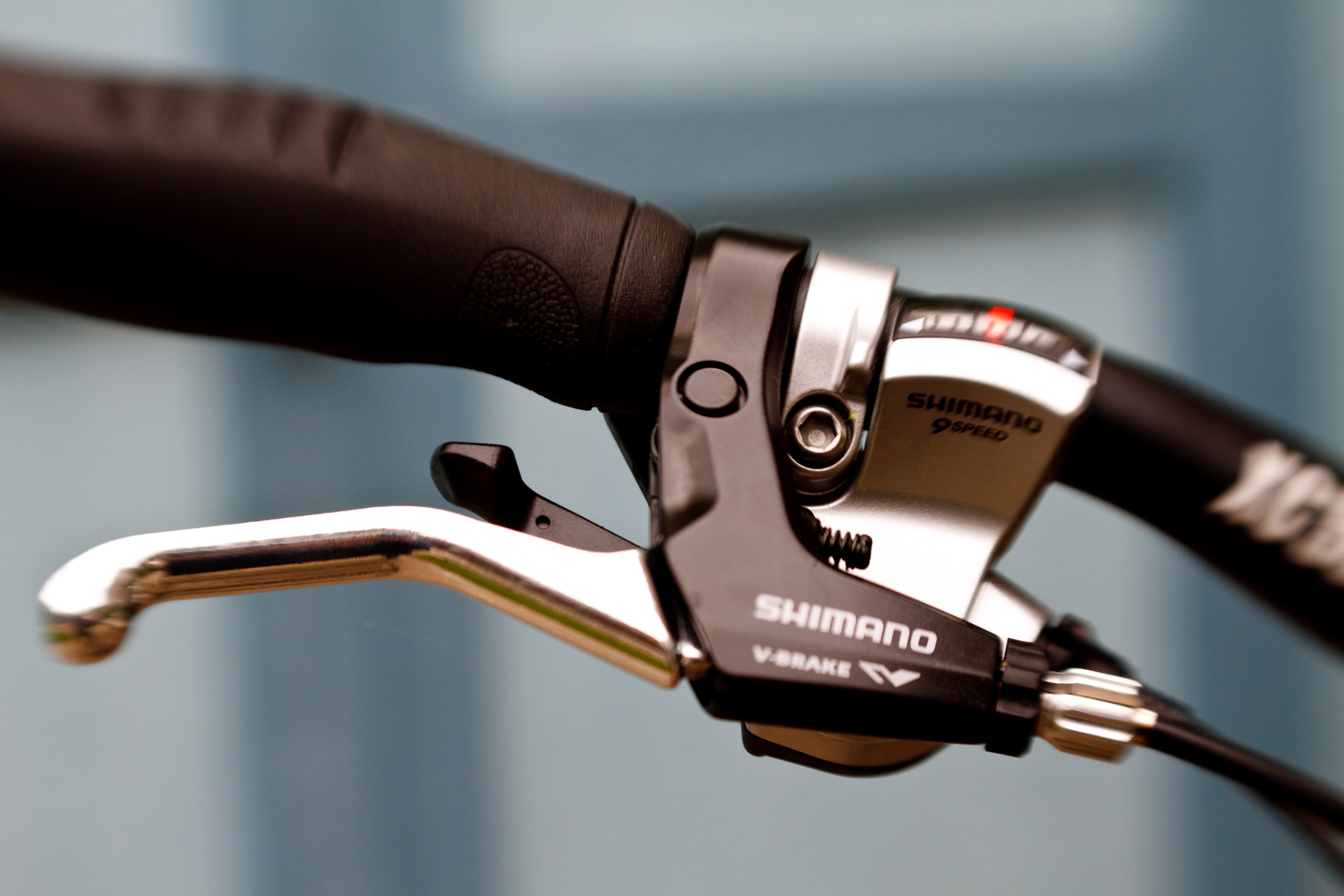 Levers on a Rocky Mountain RC50